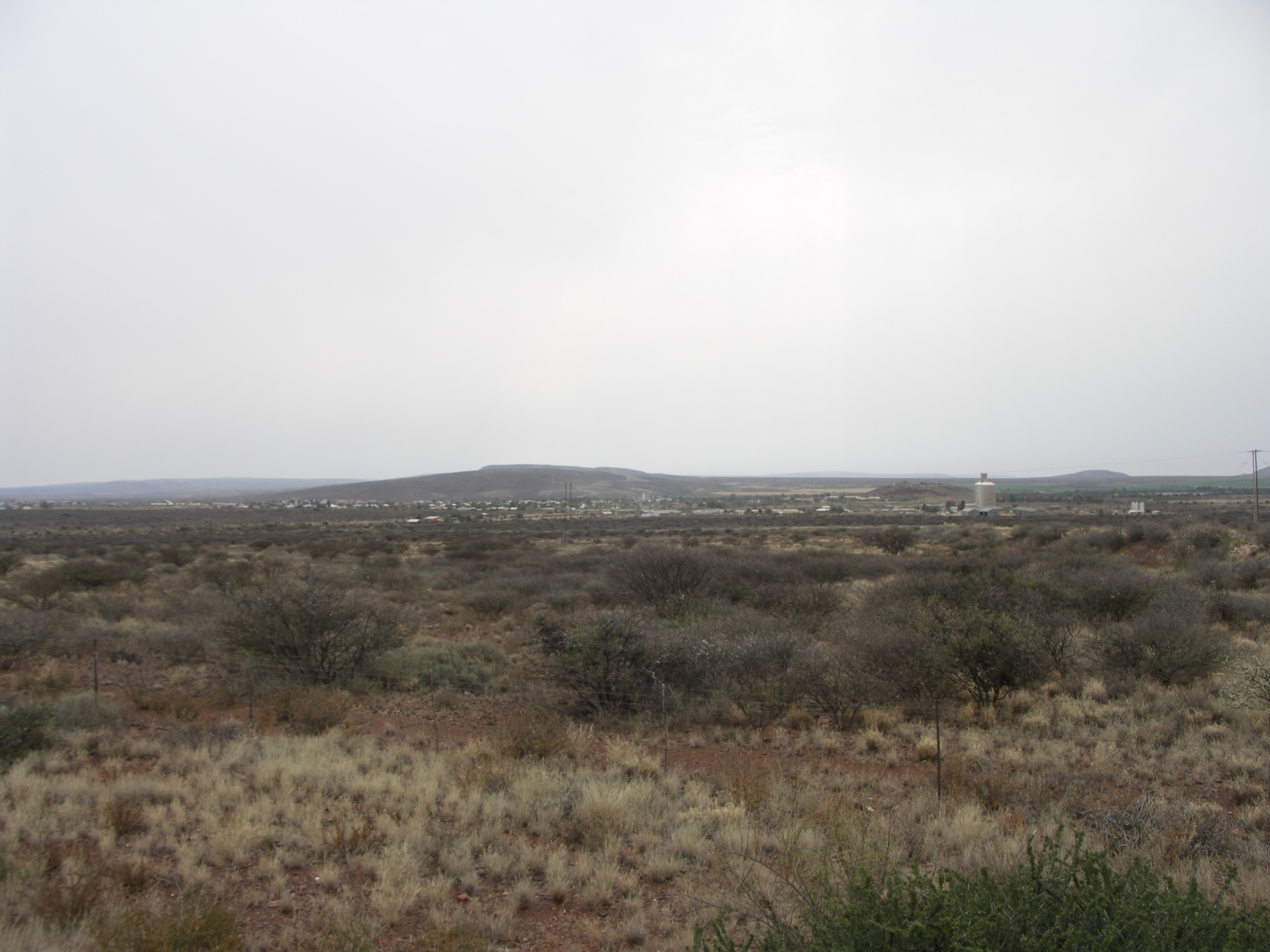 The town of Prieska in the Northern Cape, South Africa. As seen from the N10 National Road